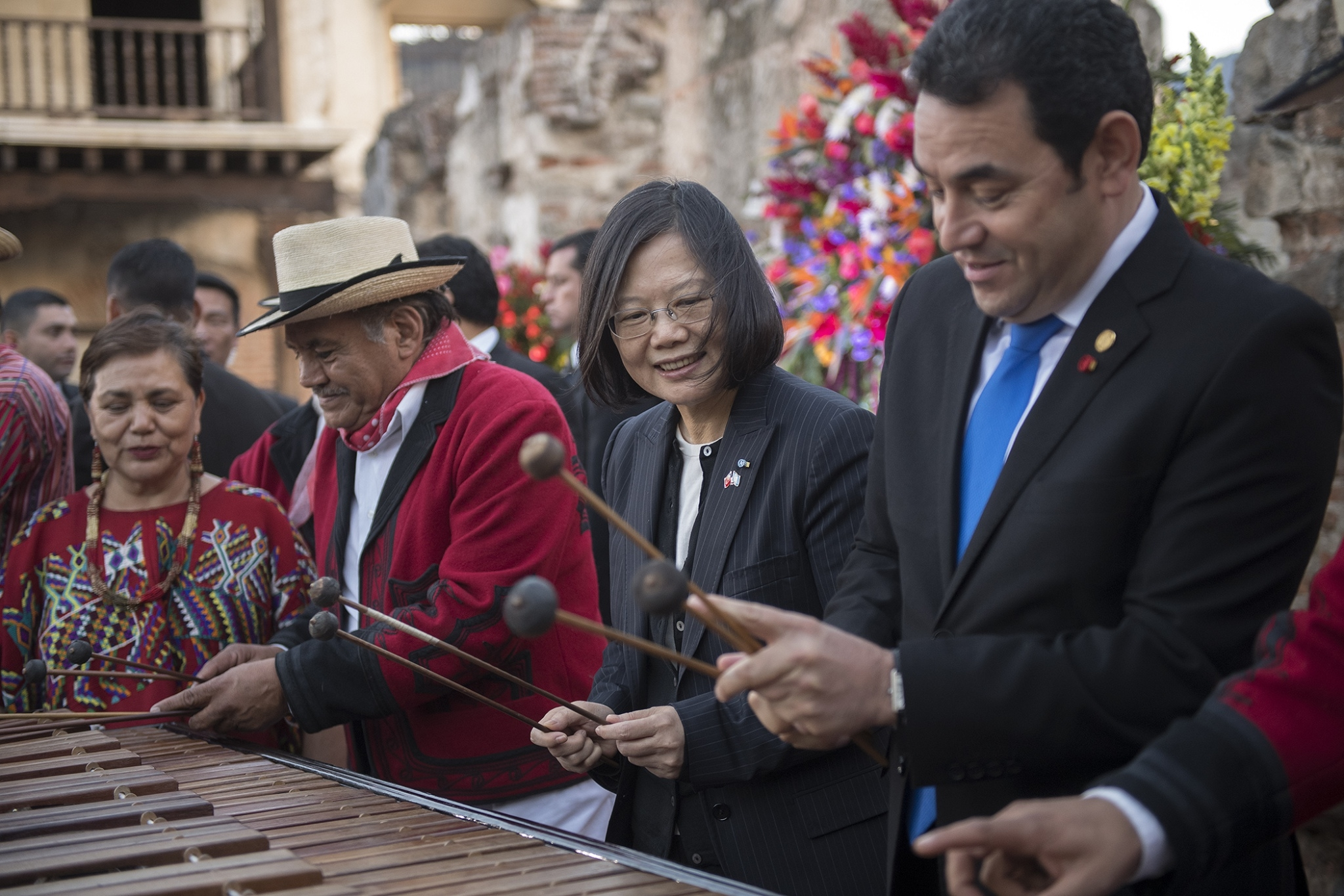 授權方式及範圍：中華民國總統府│政府網站資料開放宣告 Authorization Method & Scope: Office of the President, Republic of China (Taiwan) | Government Website Open Information Announcement